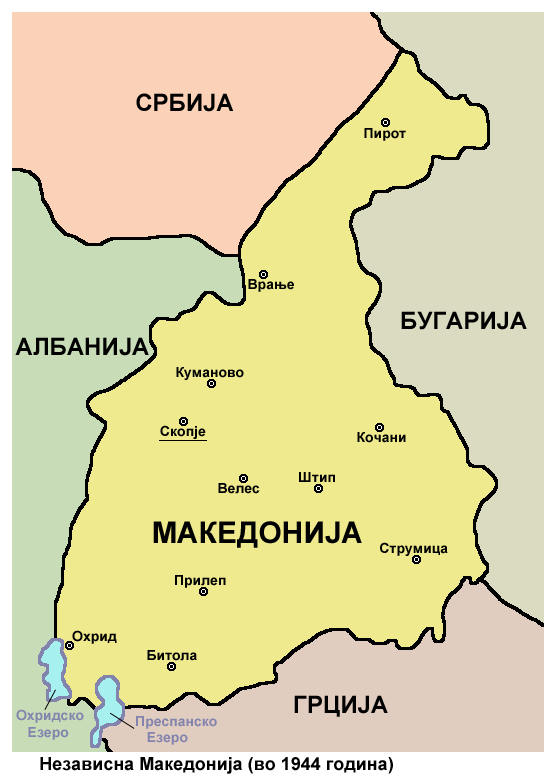 Independent Macedonia (in 1944).